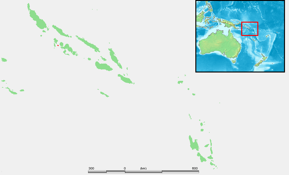 Island of Solomon Islands - Gizo.PNG